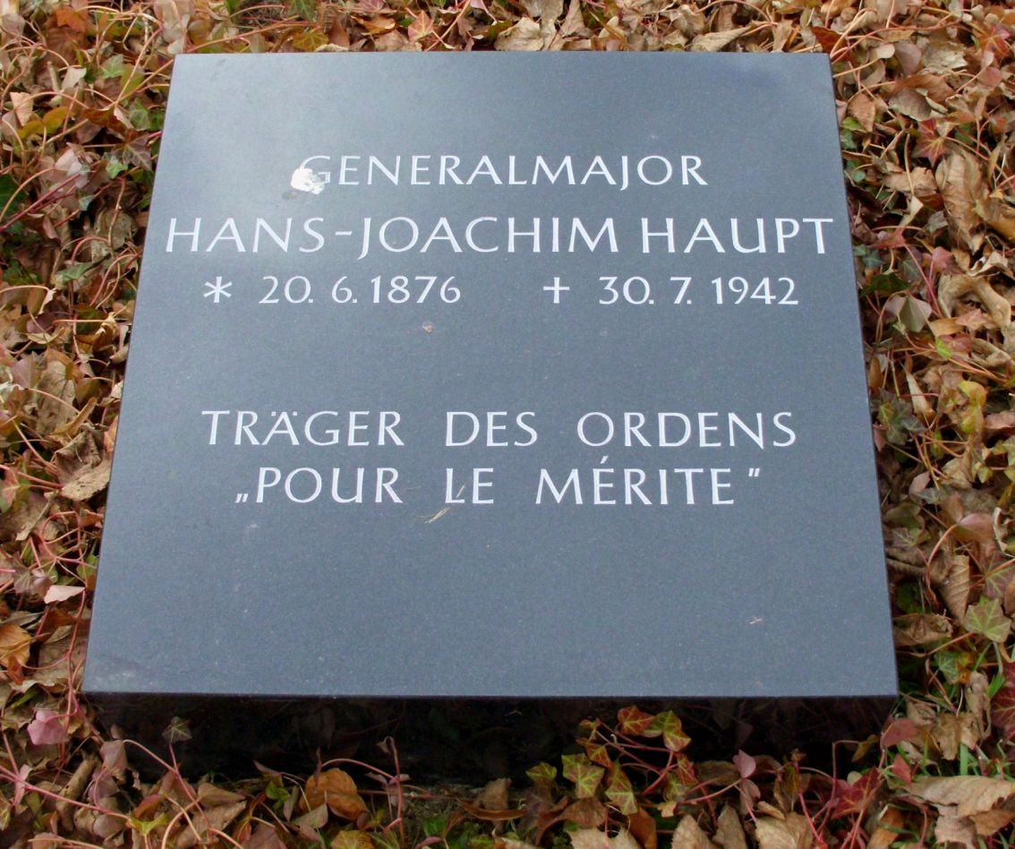 Grave of Hans-Joachim Haupt